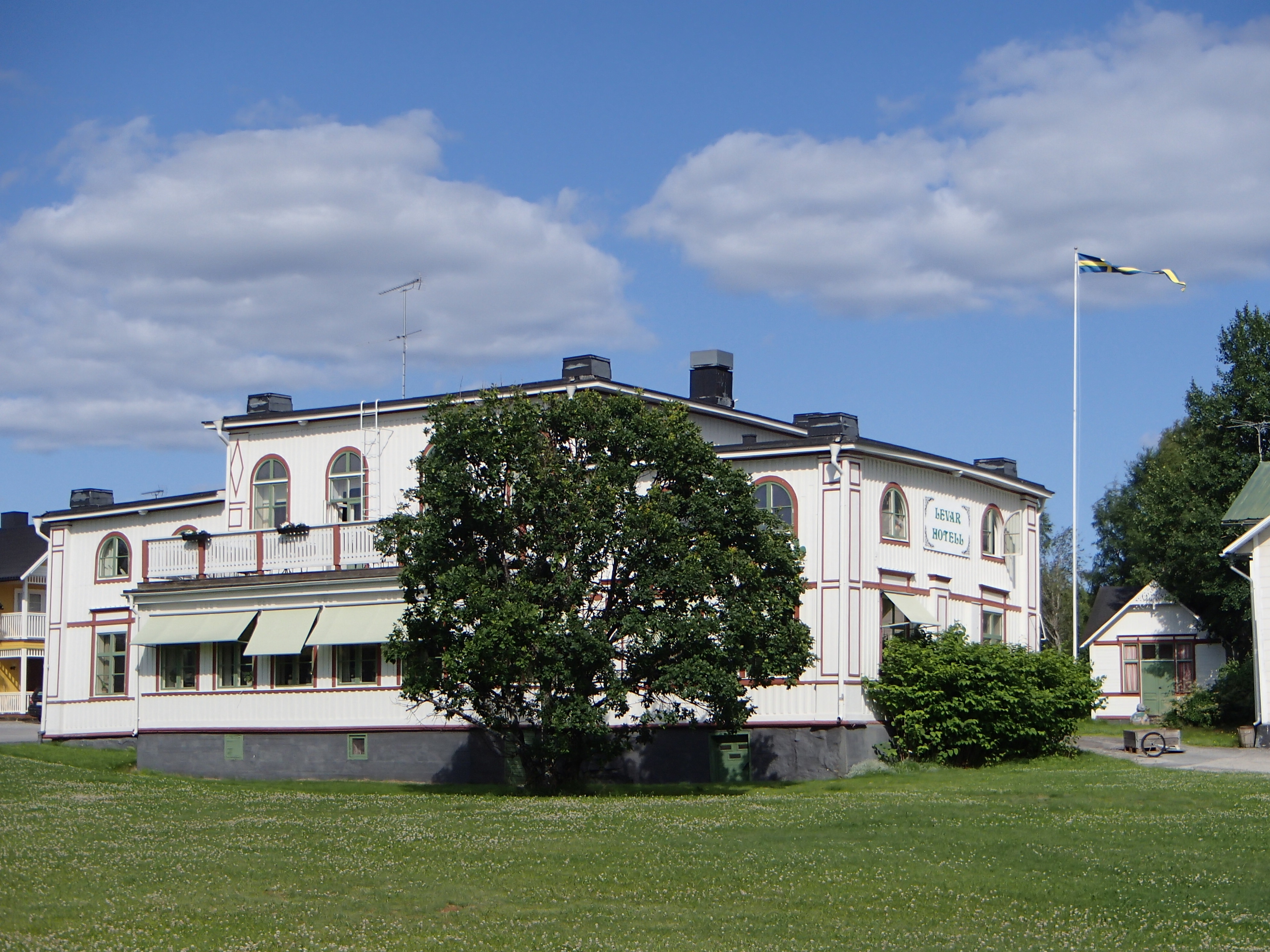 The hotel building of "Levar Hotell" at Lefvarvägen 1 in Levar, Nordmaling Municipality, viewed from west